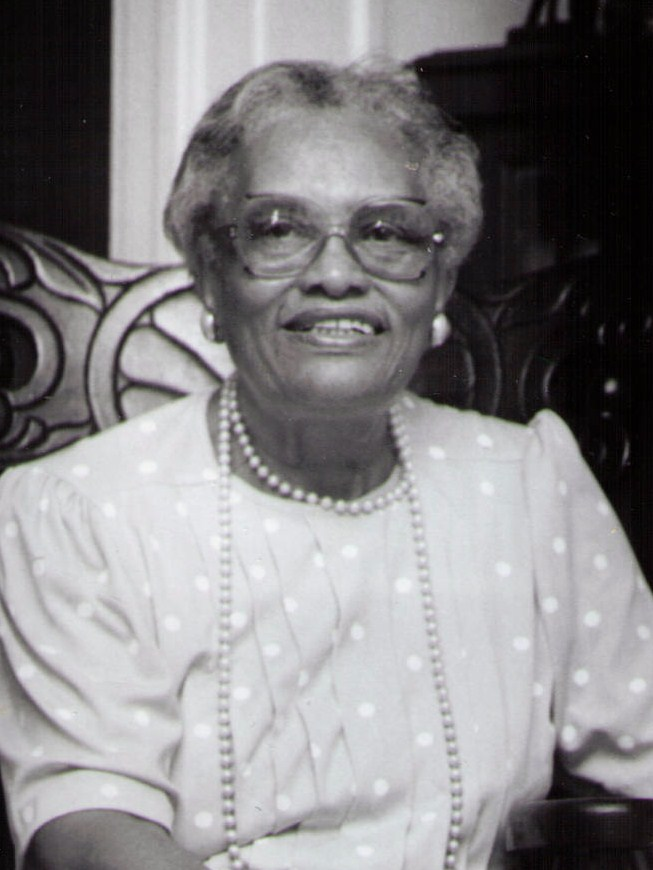 Snapshot if Dovey Roundtree in Charlotte, NC.